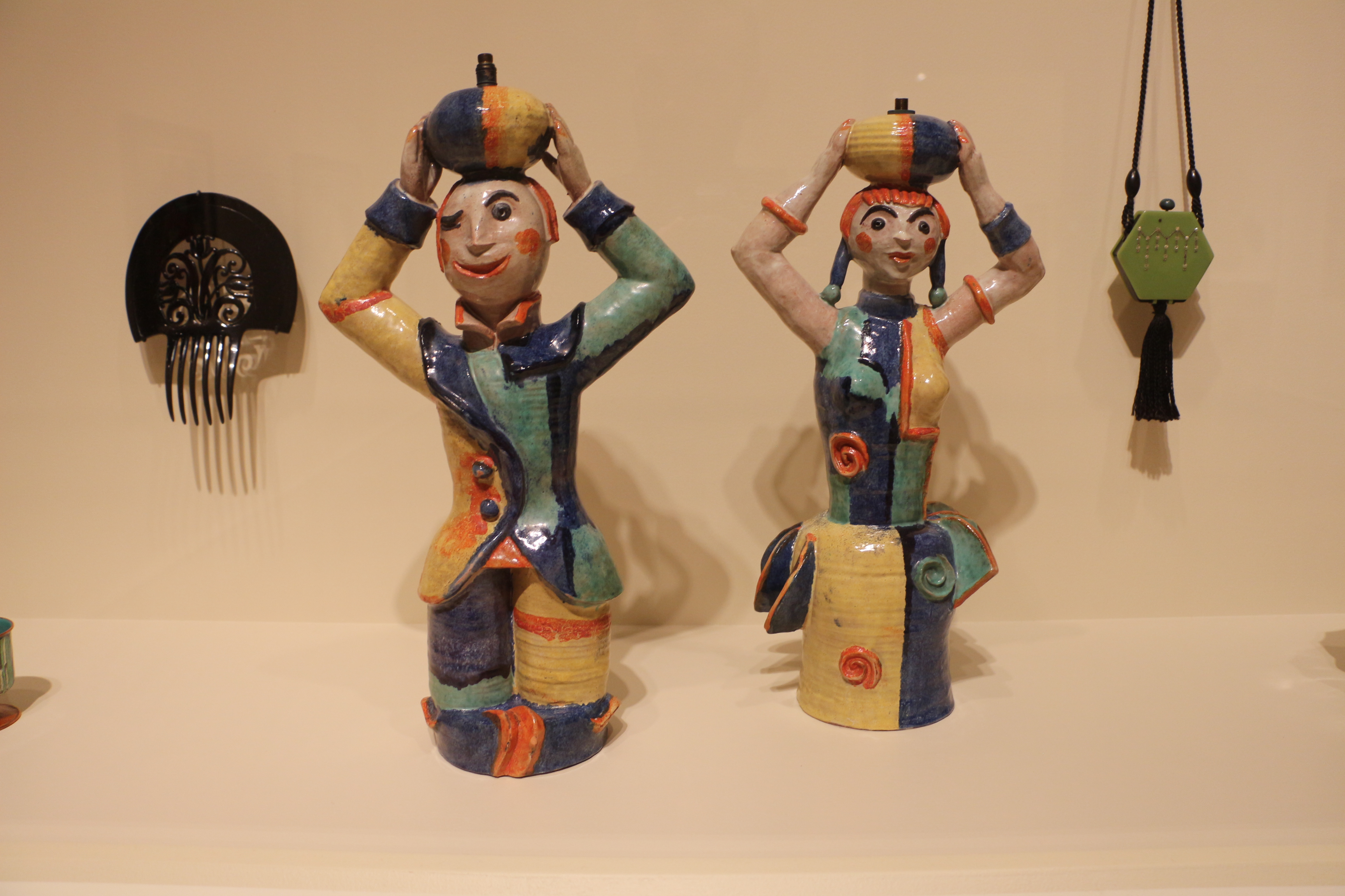 Ceramics in the Cincinnati Art Museum